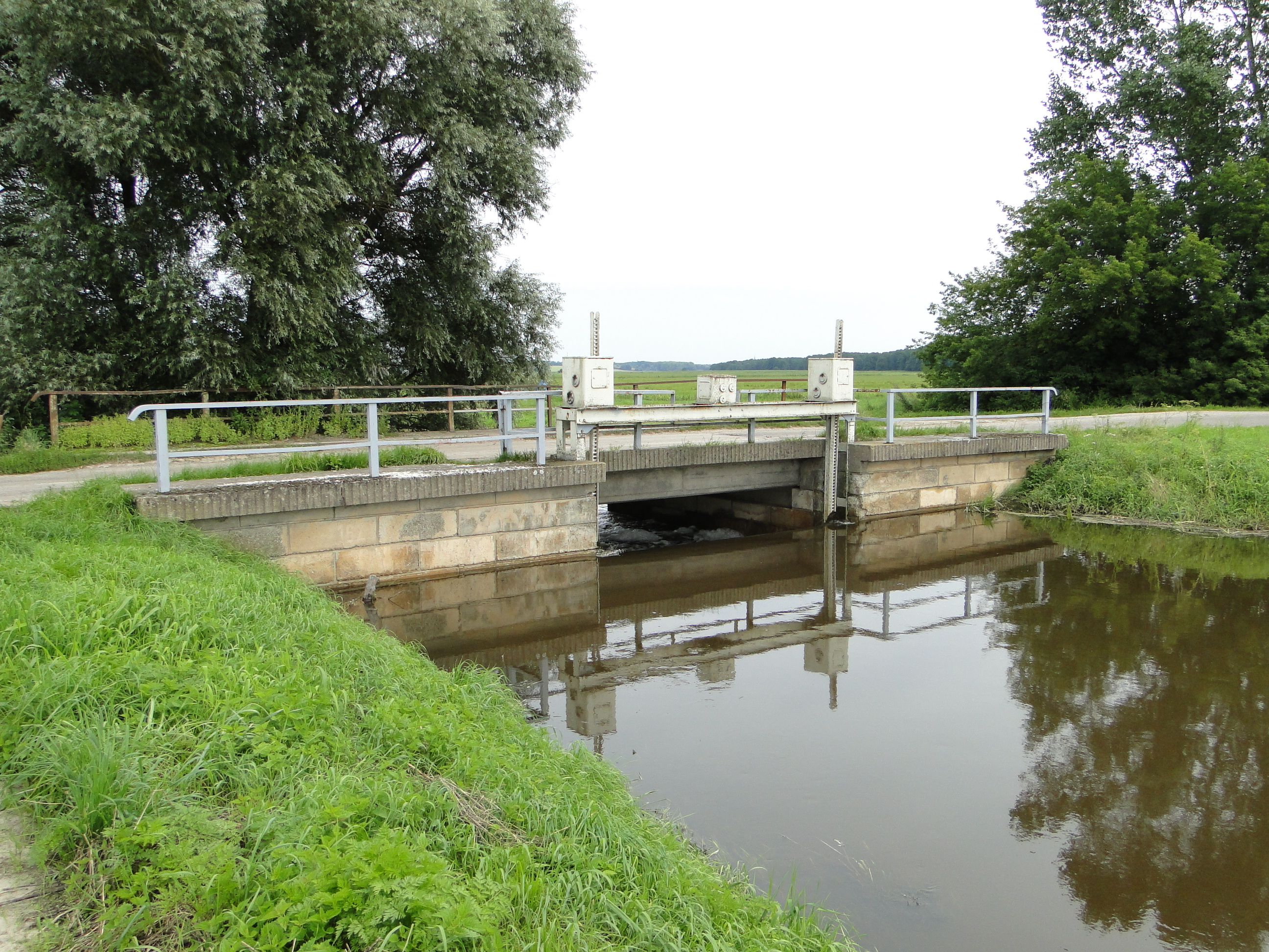 Weir and road bridge at Datze river near Roga, district Mecklenburg-Strelitz, Mecklenburg-Vorpommern, Germany